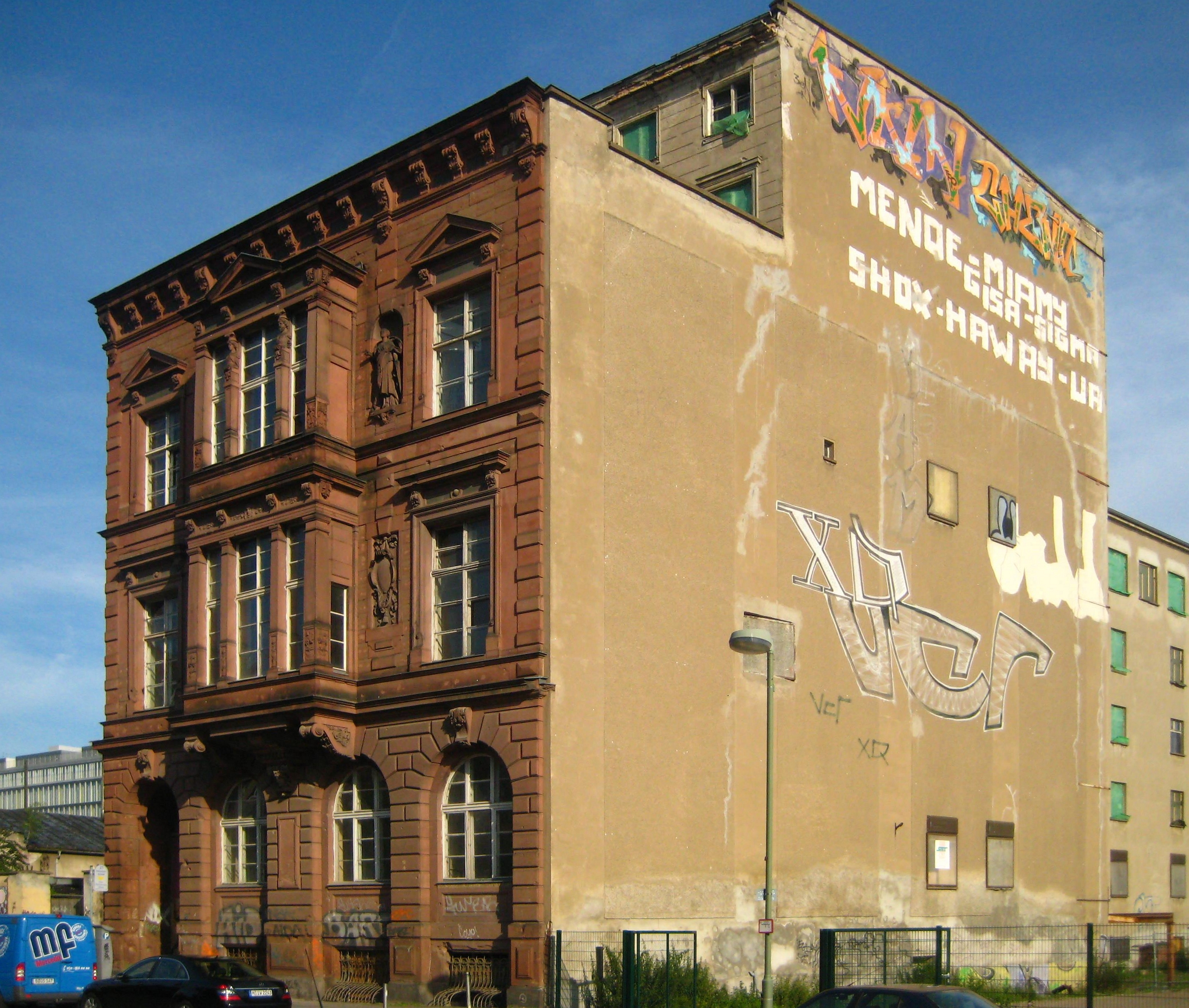 Residential building at Voßstraße No. 33 in Berlin-Mitte. It was built 1884 to 1886 by architect Wilhelm Böckmann as his private home. The house was situated next to the government buildings on Wilhelmstraße and to the large commercial buildings on Voßstraße. Consequentially, Böckmann created a formidable red sandstone facade showing elements of both Baroque and Renaissance architecture. At the inside of the building, the entrance hall and two rooms upstairs with coffered ceilings have been preserved in their original outlook. The building was taken over by the neighboring Reich's Railway Directorate in 1934 and received two additional stories. This is in fact the only historic building on Voßstraße which survived WWII. It is landmarked.